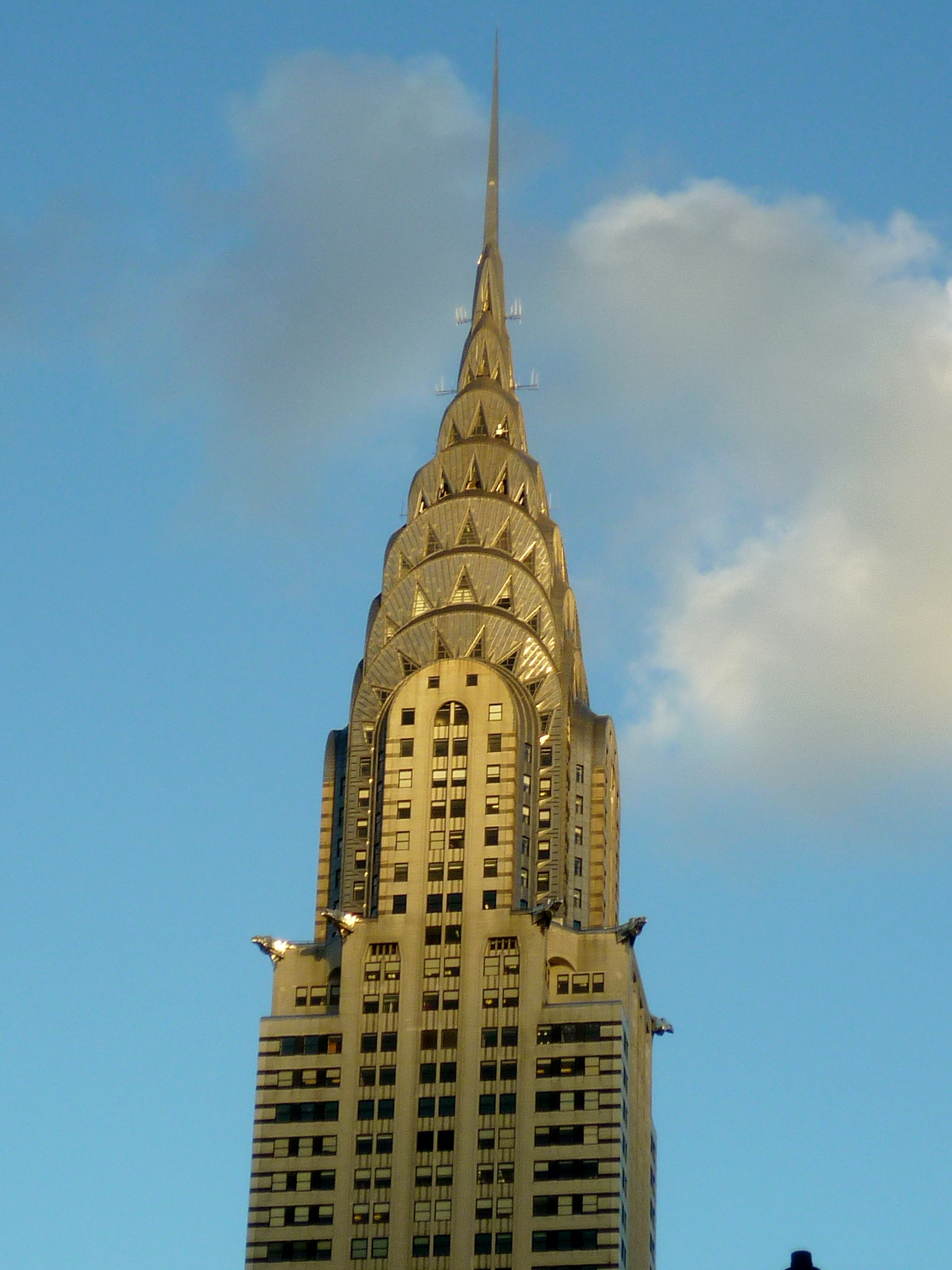 Top of the Chrysler Building, NYC